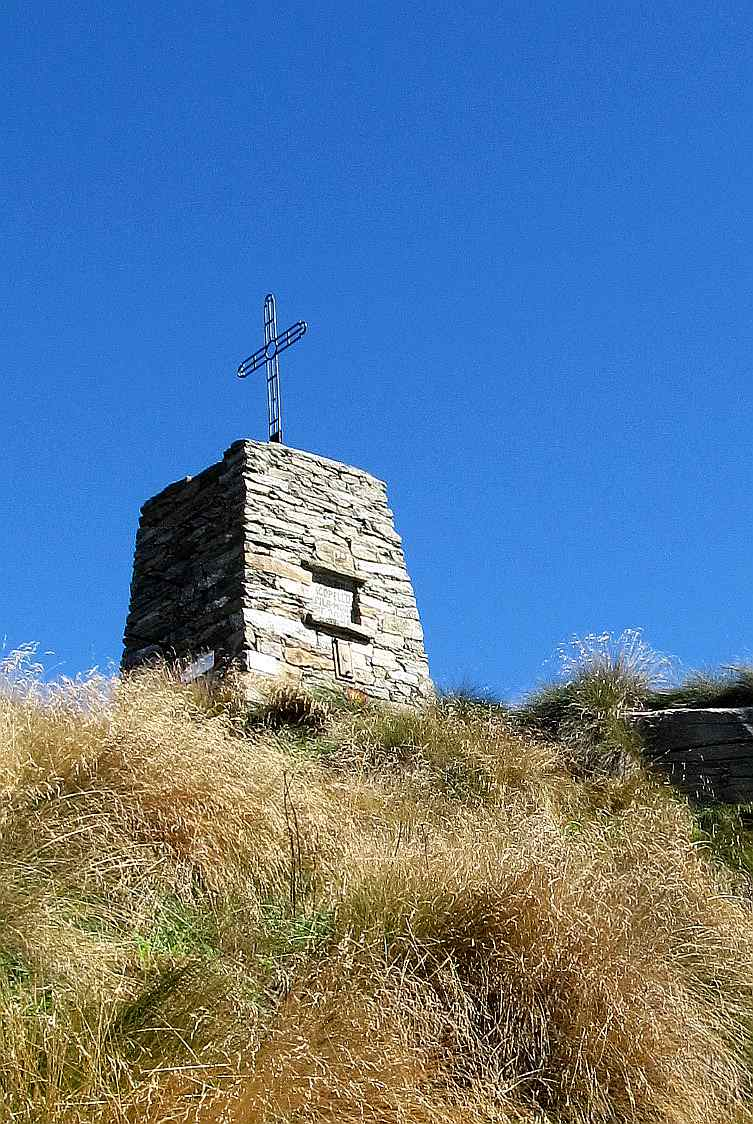 Cima d'Ometto (VC, Italy): summit cross